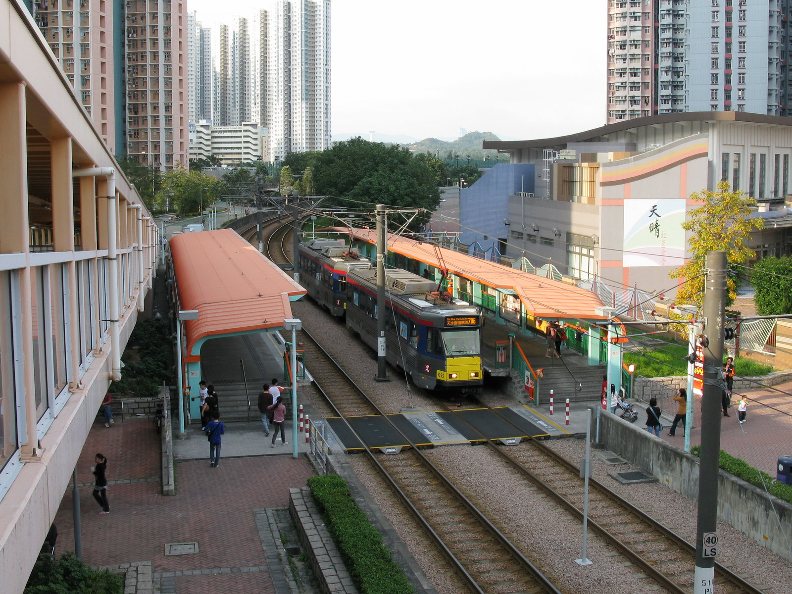 Tin Yuet Stop, Light Rail